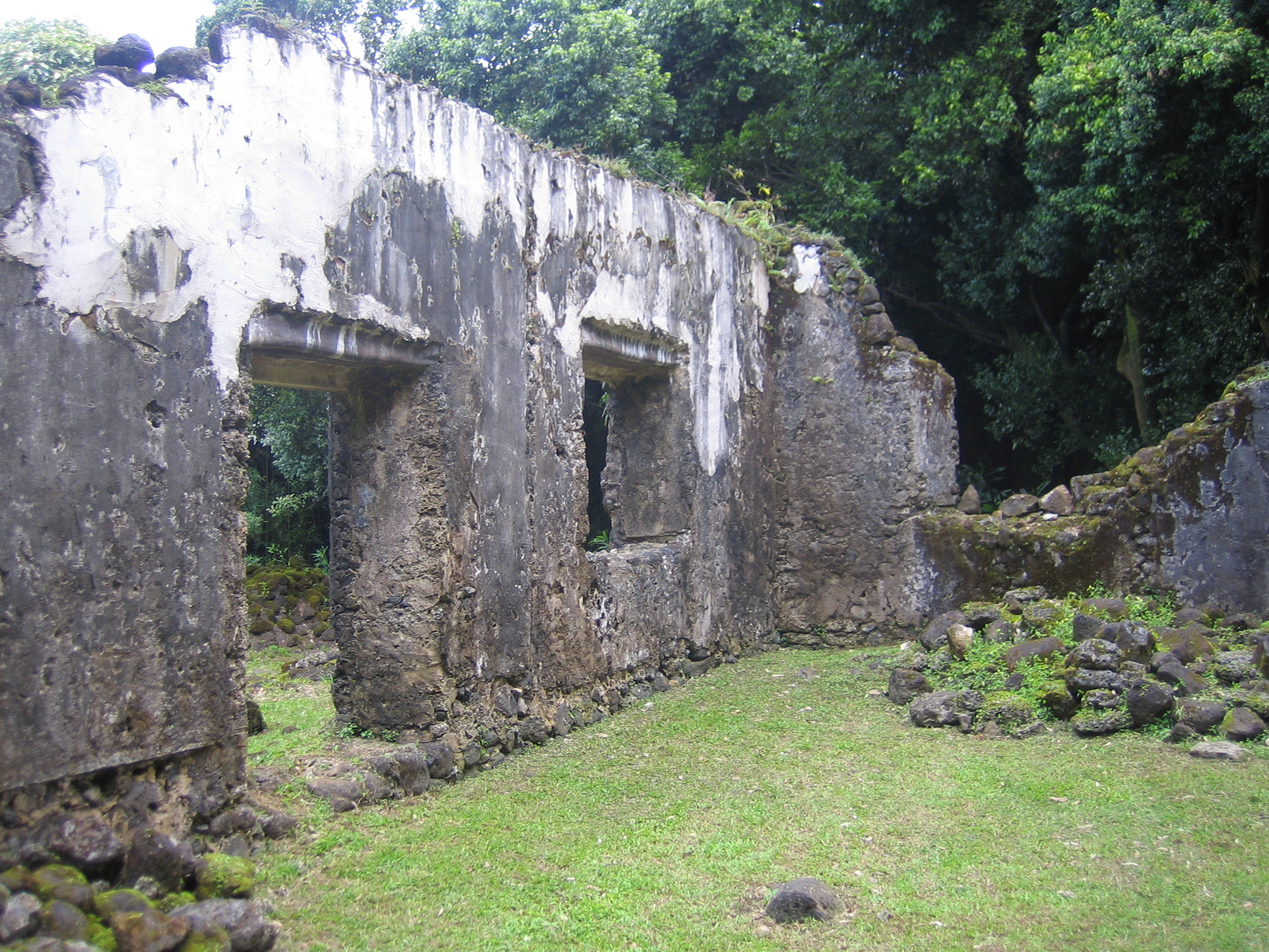 The ruined remains of Kaniakapupu, the summer palace of king Kamehameha III on Oahu, HI.